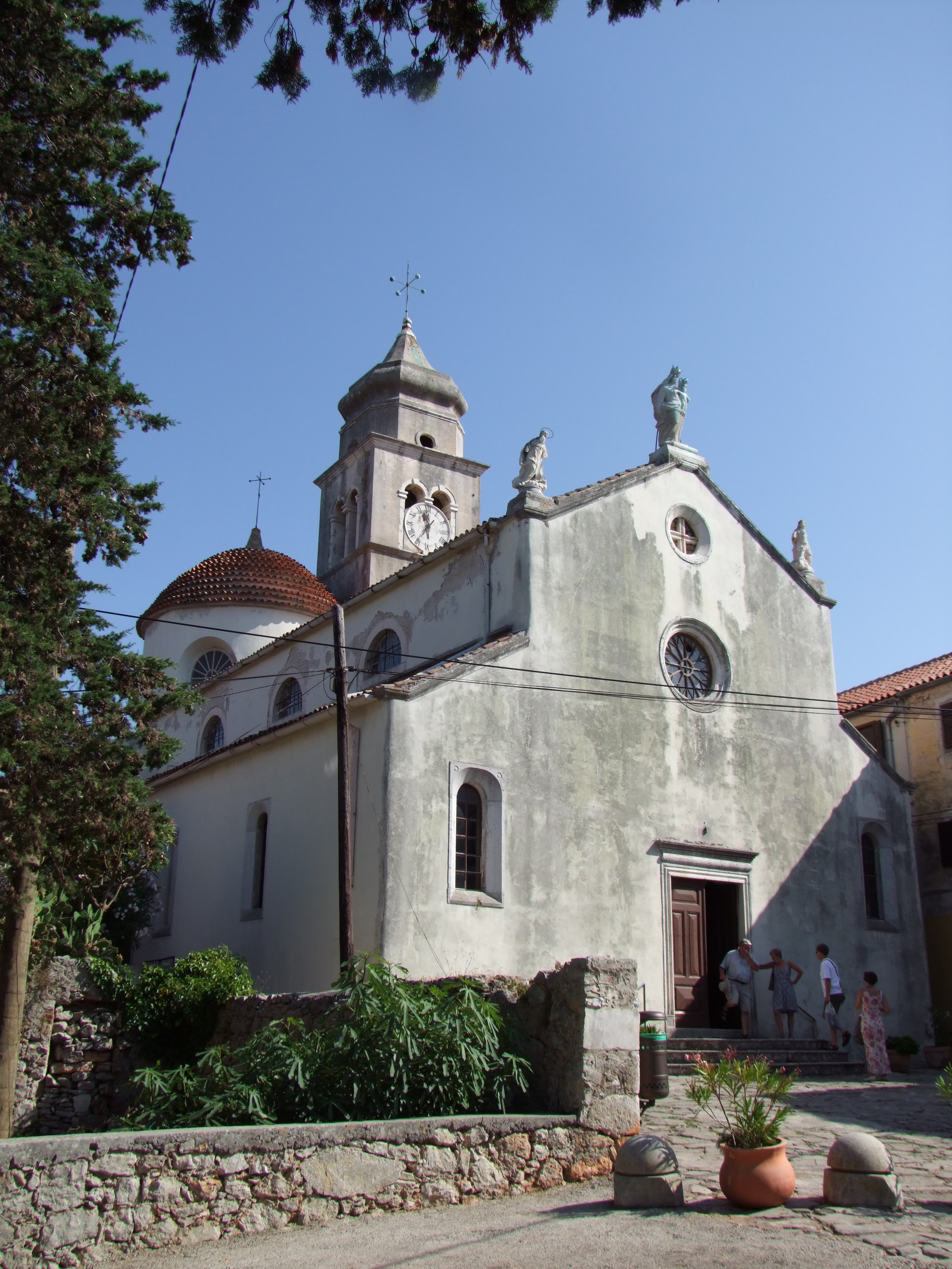 Old church in Veli Lošinj.